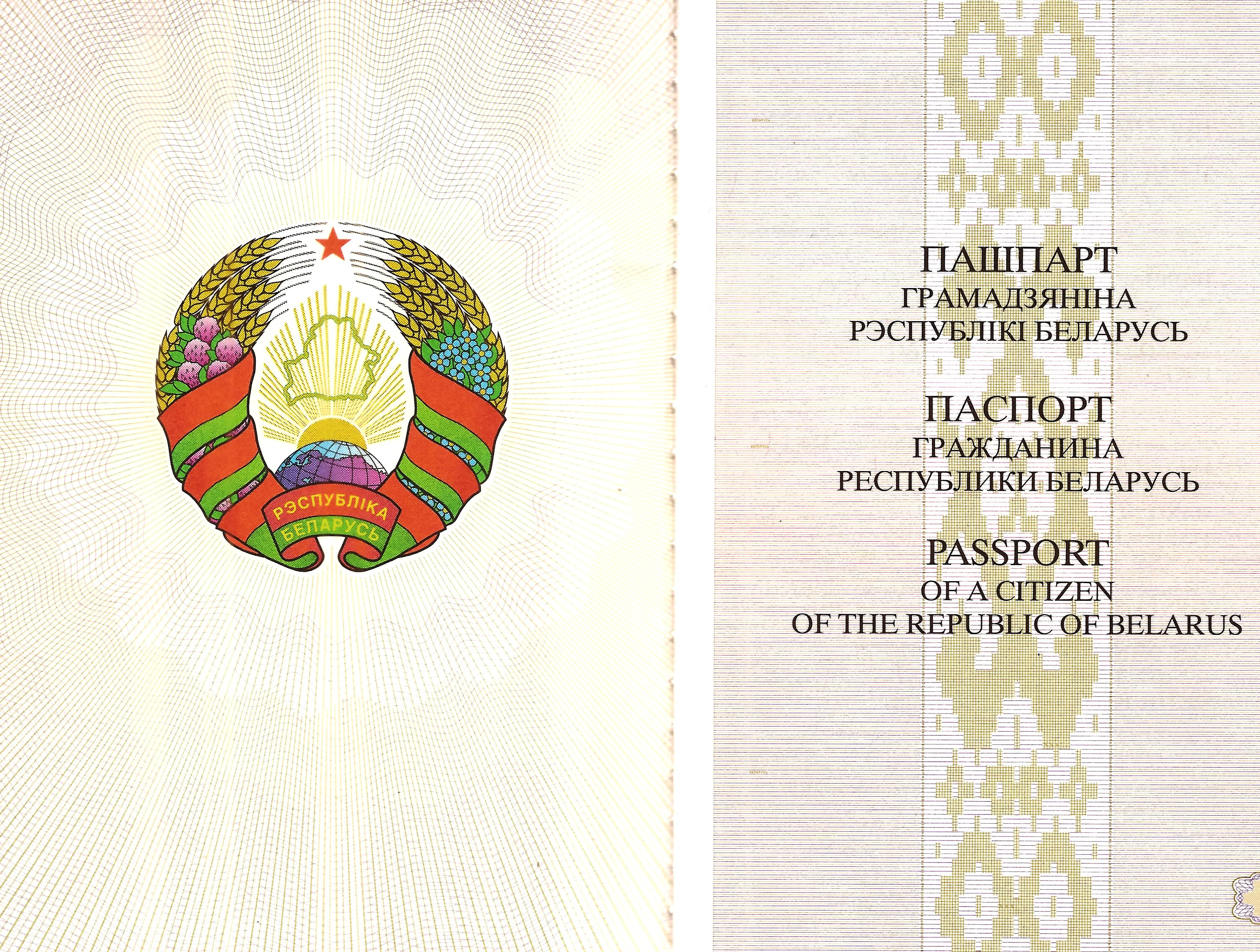 First pages of a Belarusian passport scanned by me.